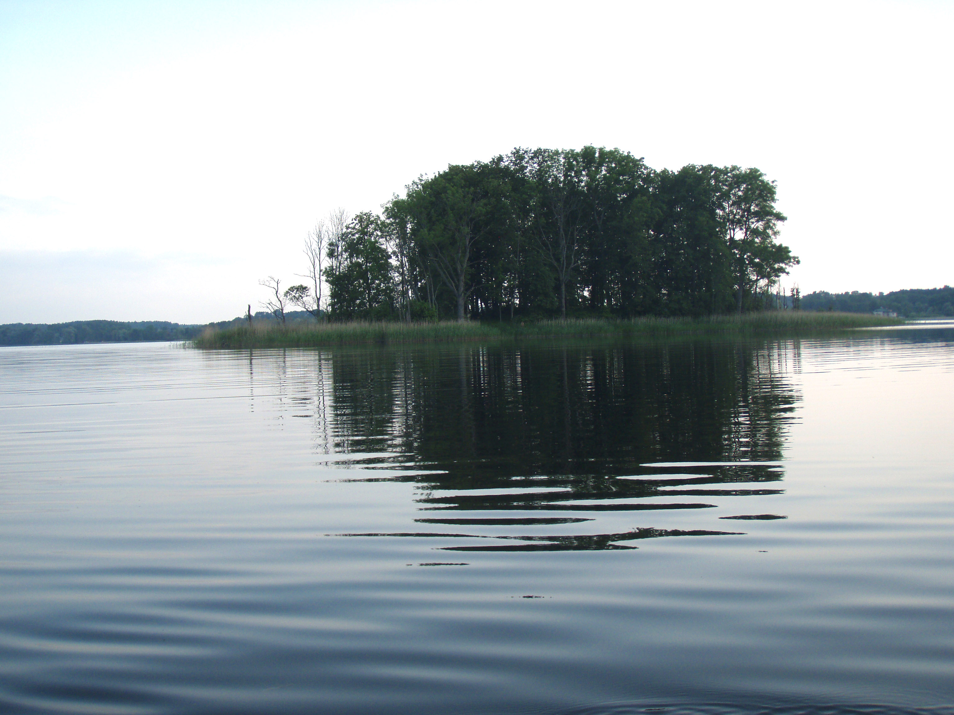 lake Indrajai, Lithuania